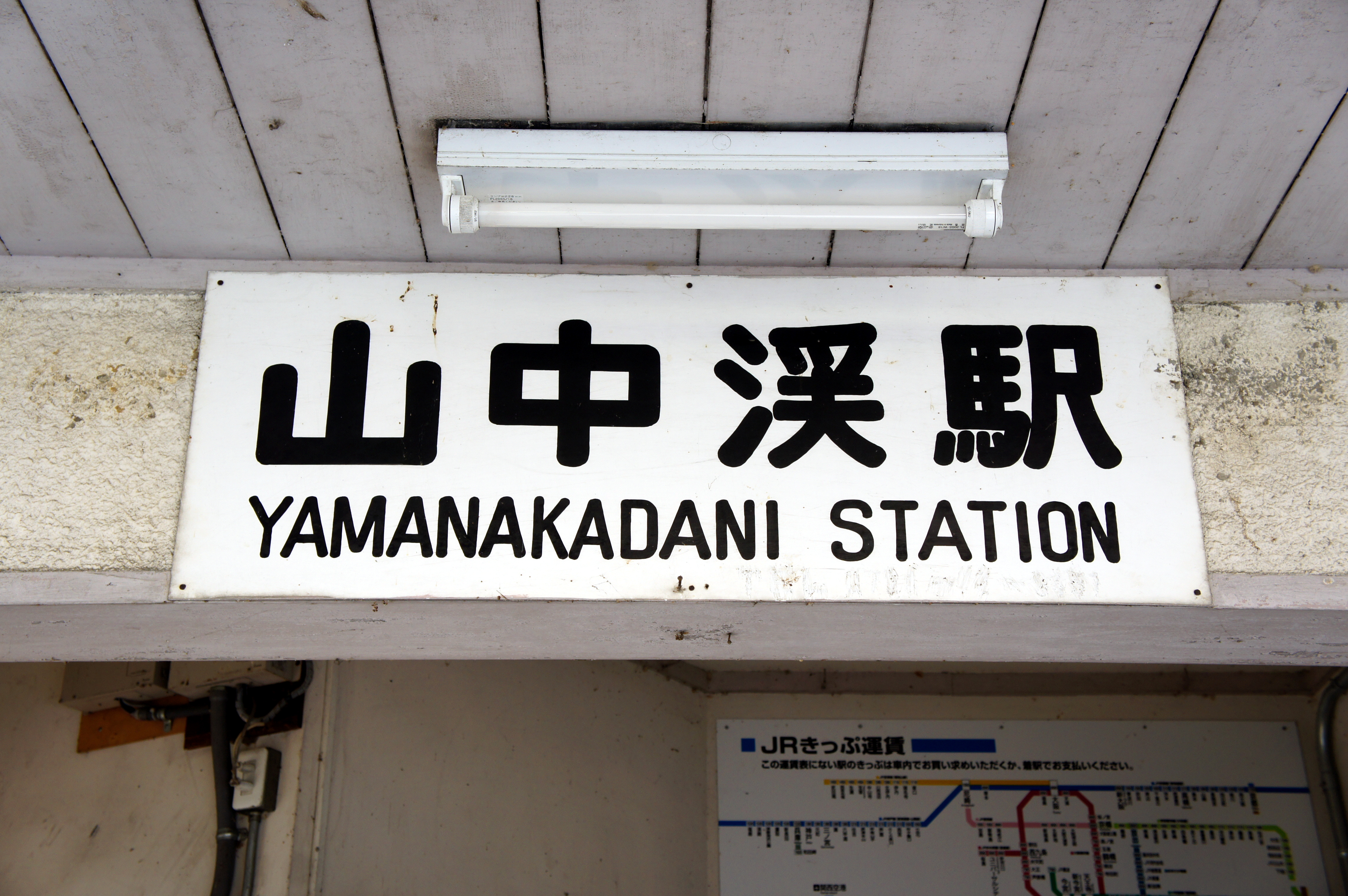 Yamanakadani Station Nameboard (Hannan, Osaka Prefecture, Japan)